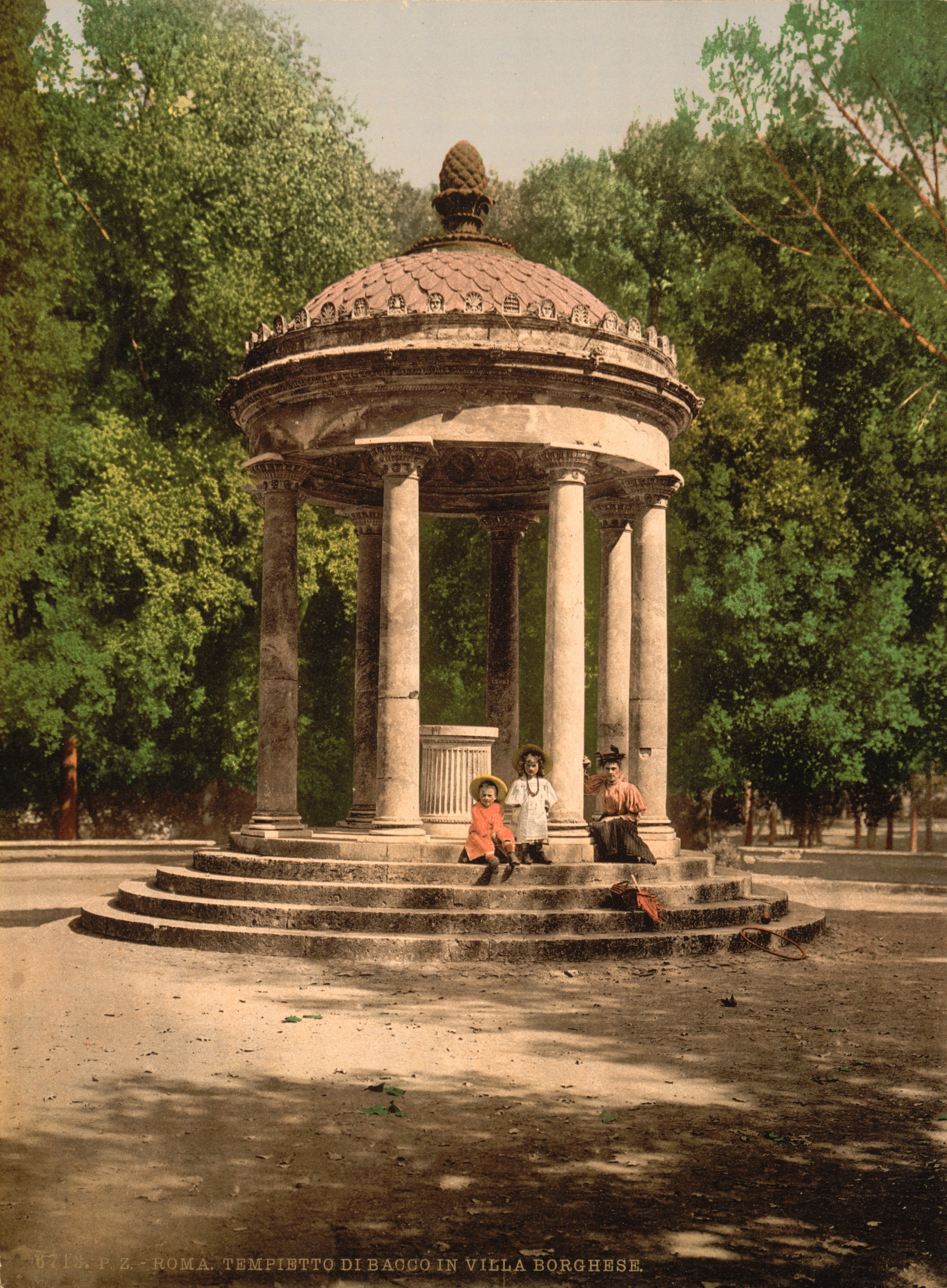 Image shows the Temple of Diana in Villa Borghese Park, Rome, Italy.